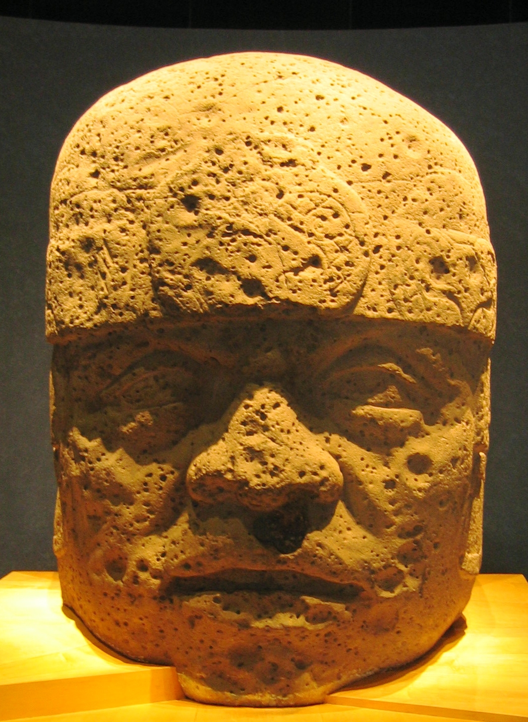 San Lorenzo Colossal Head 2, from San Lorenzo Tenochtitlán, Veracruz. In the Museo Nacional de Antropología, Mexico City.